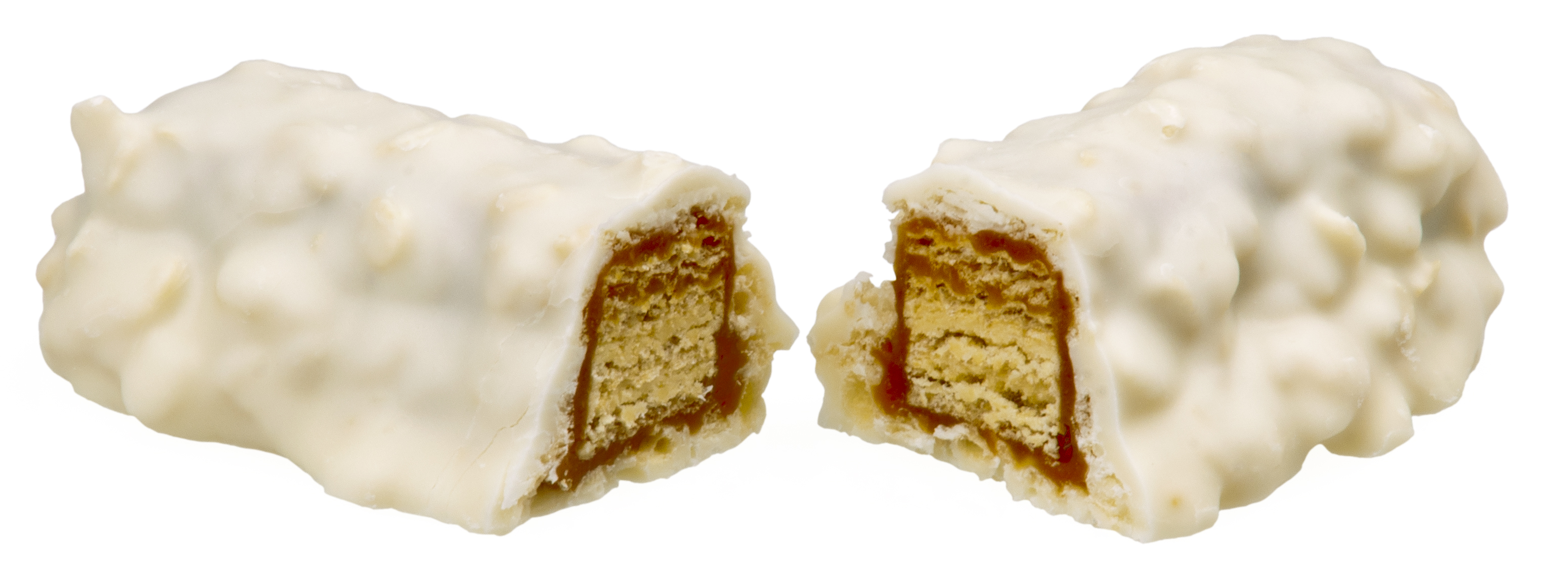 A Lion White candy bar from Nestle. Sold in the UK.